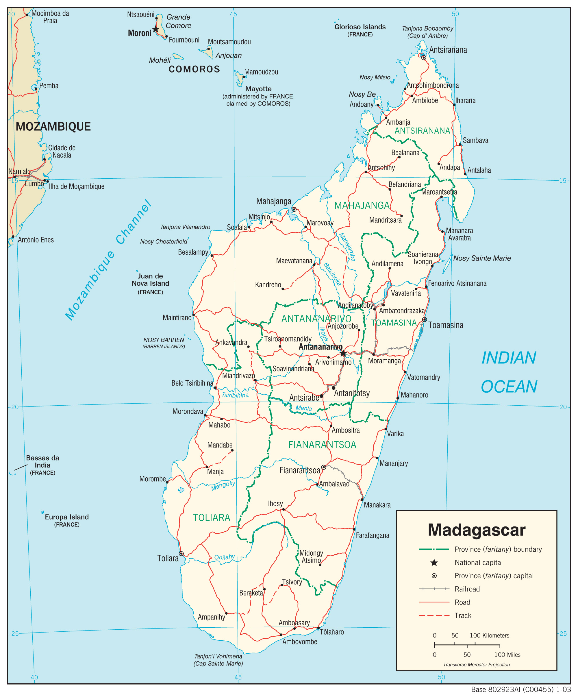 Transport system in Madagascar, 2003.